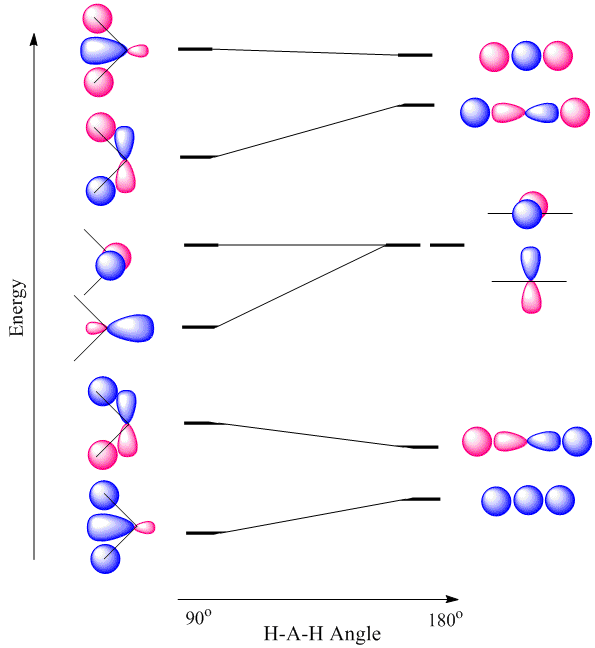 walsh diagram